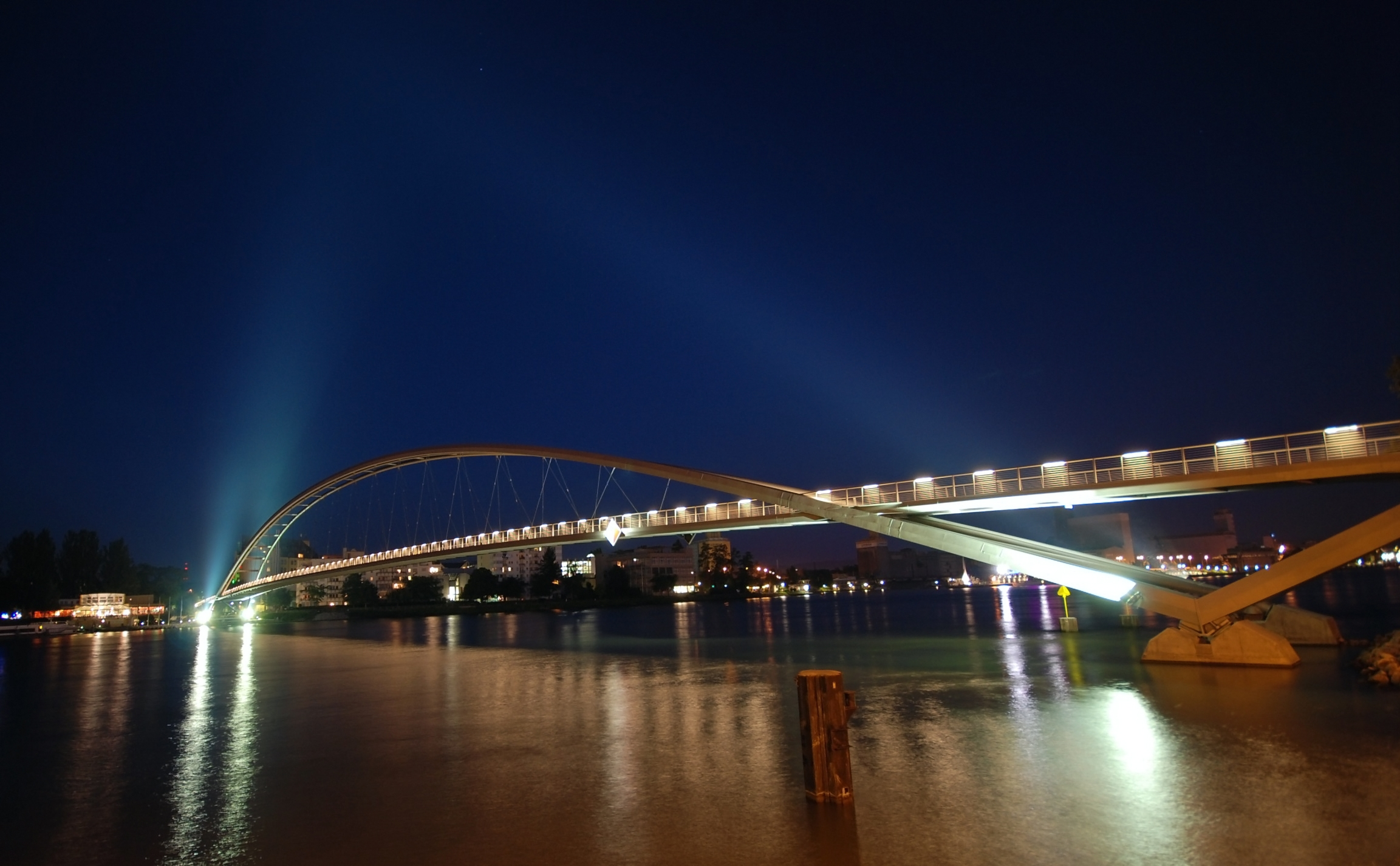 The Three Country Bridge at night in Huningue (France) and Weil am Rhein (Germany) next to the Three Country Country of Basel (Switzerland).